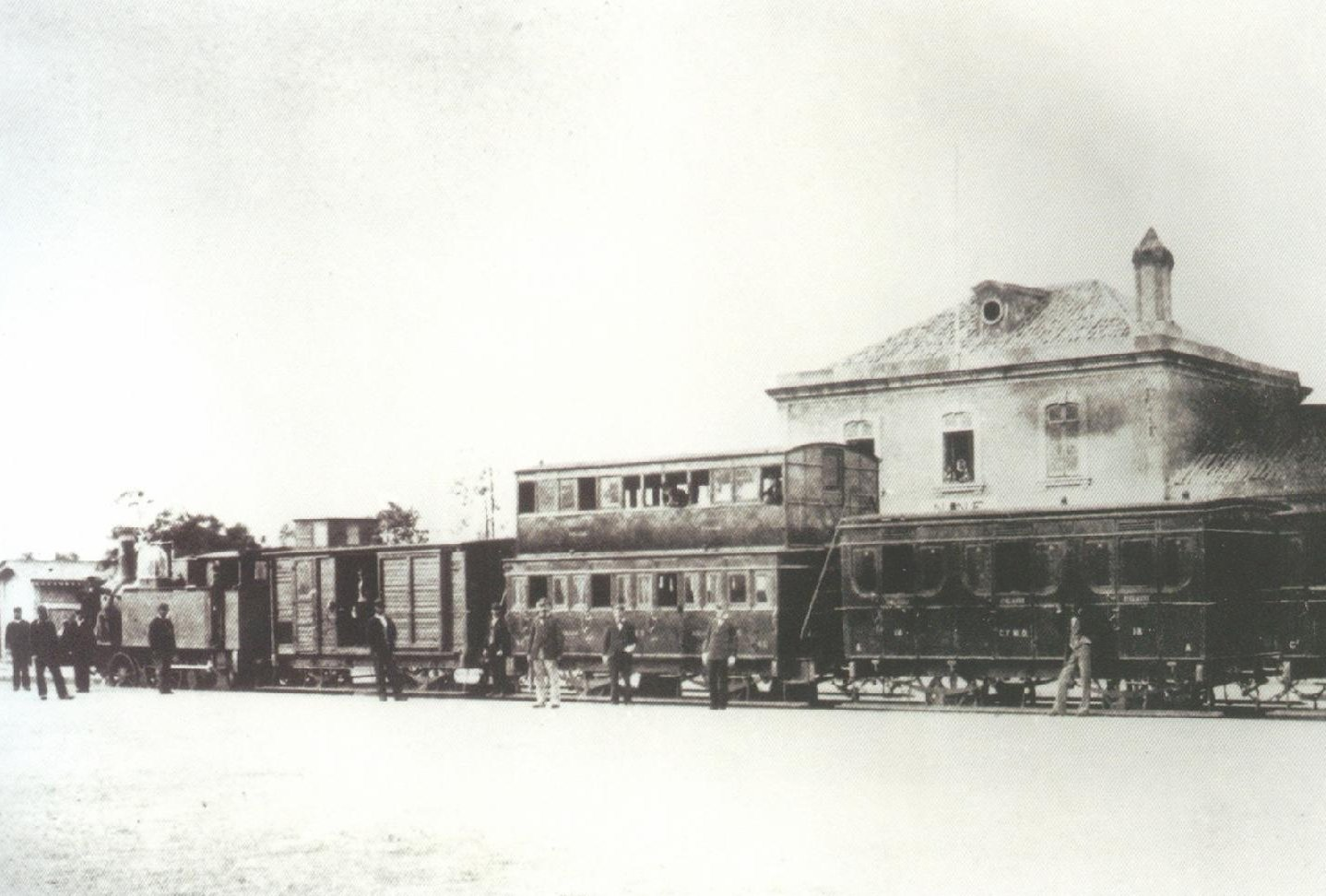 Railway Car with 2 floors at the Nine Station, in the Minho Line, in northern Portugal